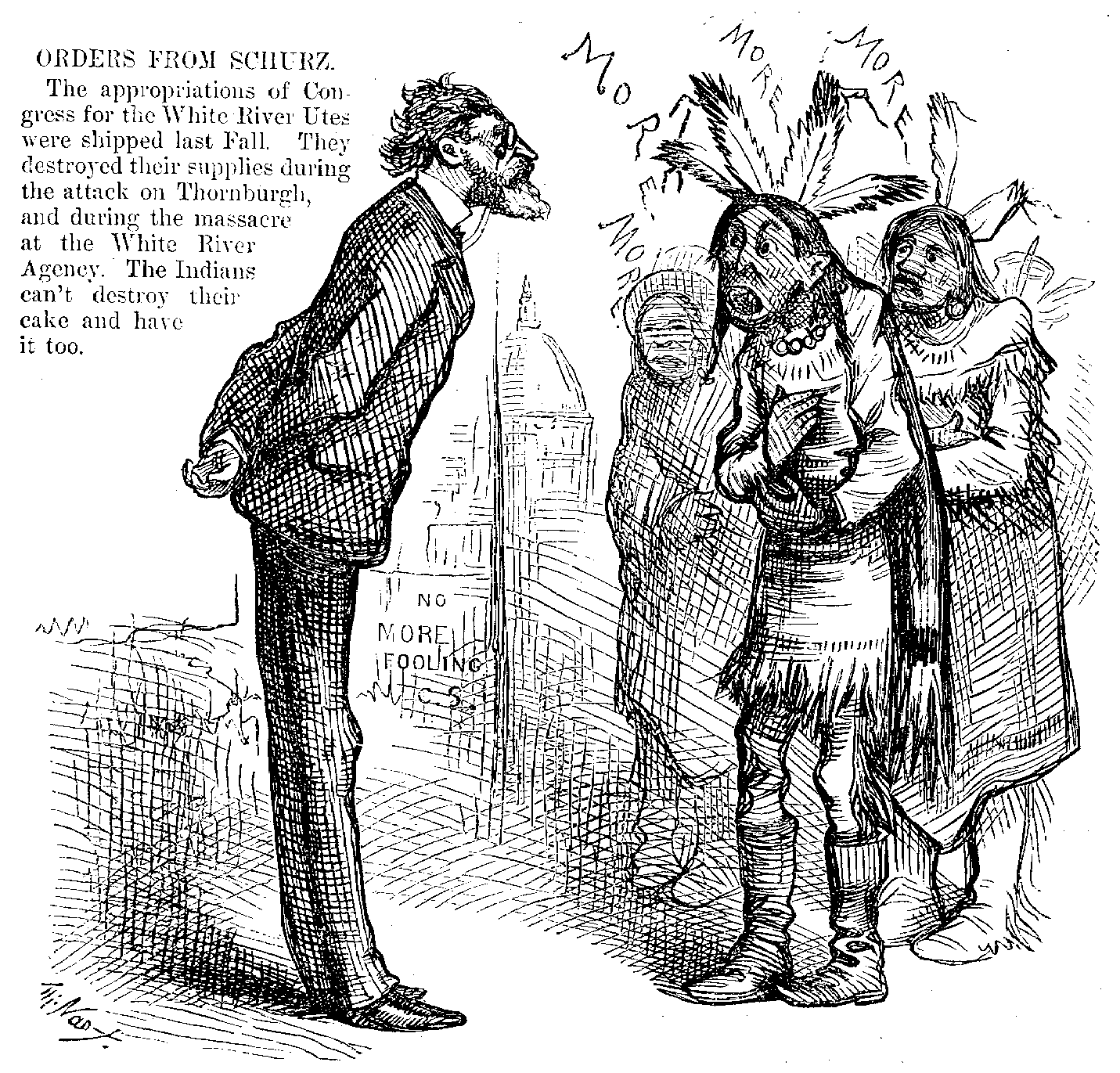 Carl Schurz stands confronting a small band of Indians who are collectively saying "More." A note in the upper left-hand corner says “ORDERS FROM SCHURZ. The appropriations of Congress for the White River Utes were shipped last Fall. They destroyed their supplies during the attack on Thornburgh, and during the massacre at the White River Agency. The Indians can't destroy their cake and have it too.”